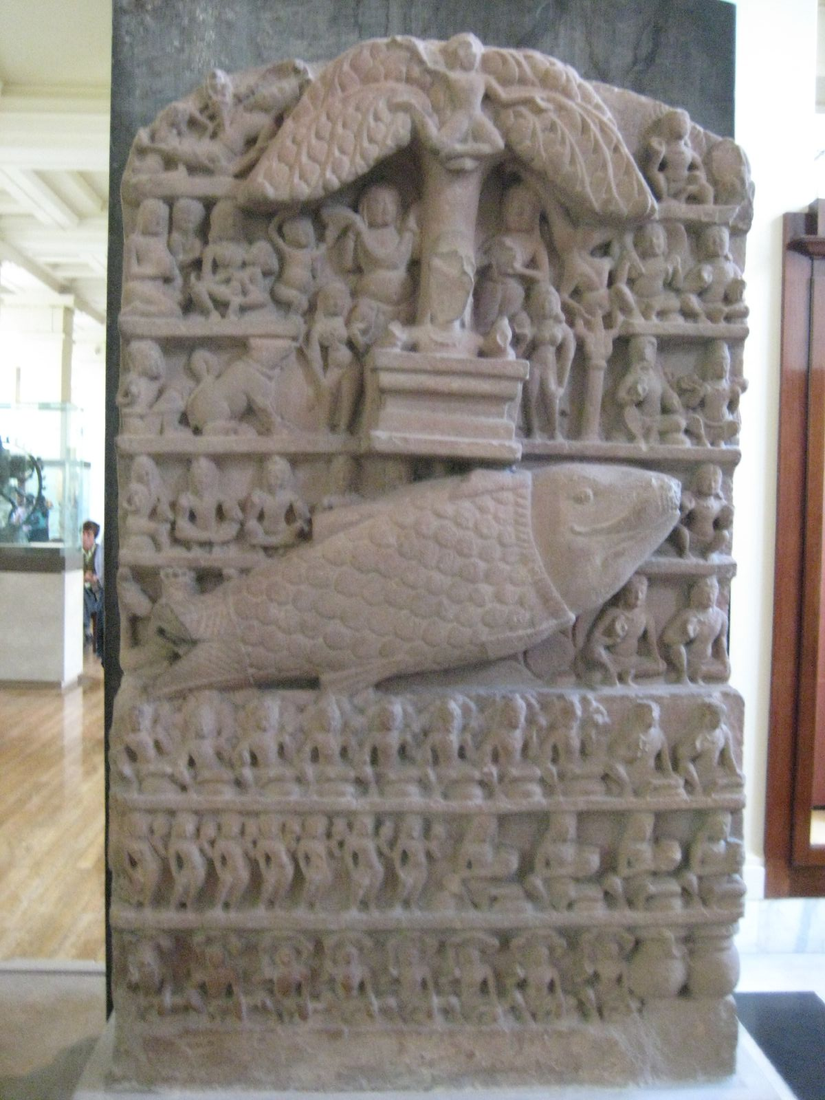 Central India, 9th - 10th century AD More gods need fish incarnations. Description on British museum site